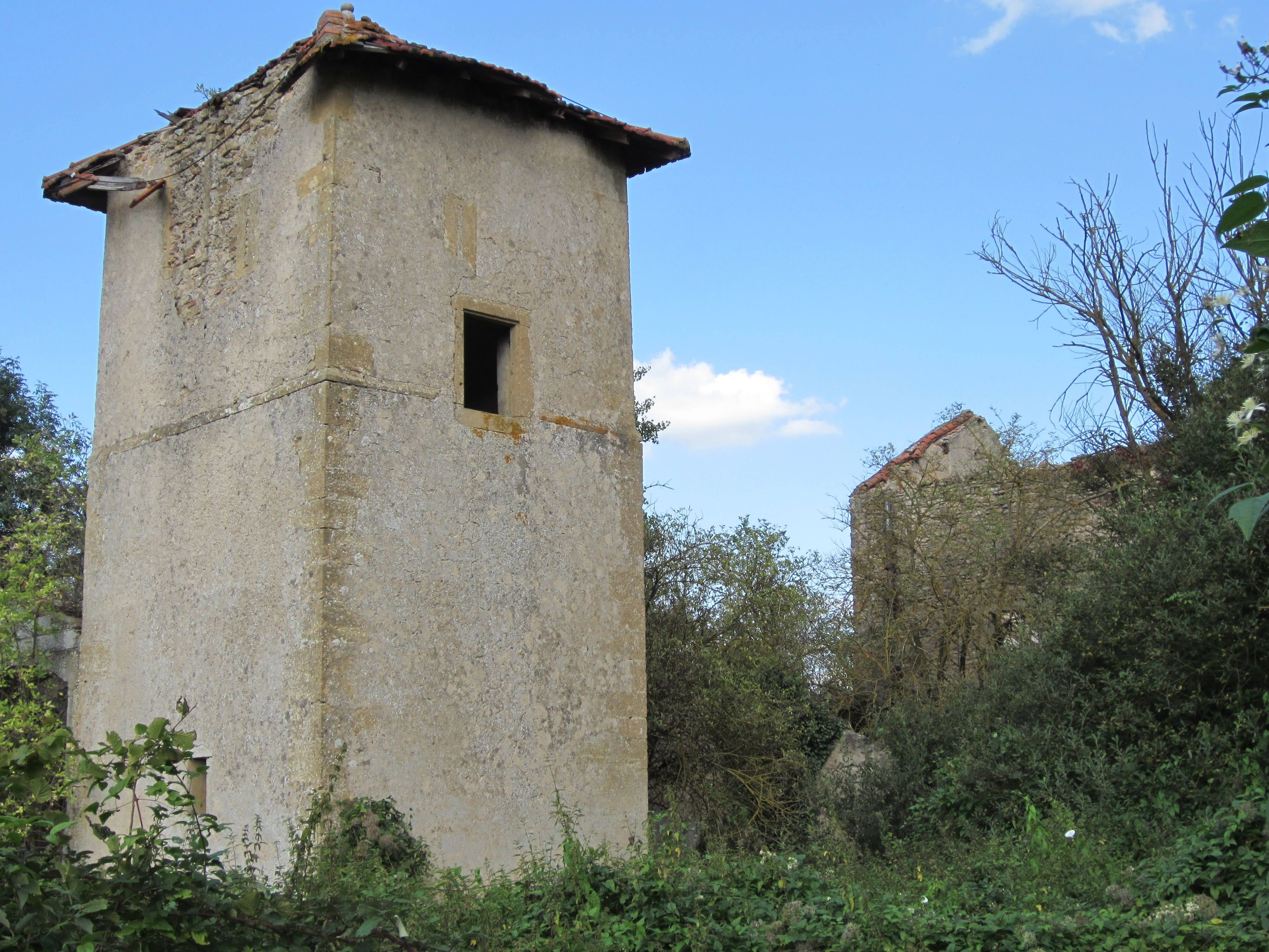 Description grandes tappes Woippy Date6 September 2011Sourcemon appareil photoAuthorAimelaimePermission (Reusing this file) grandes tappes Woippy